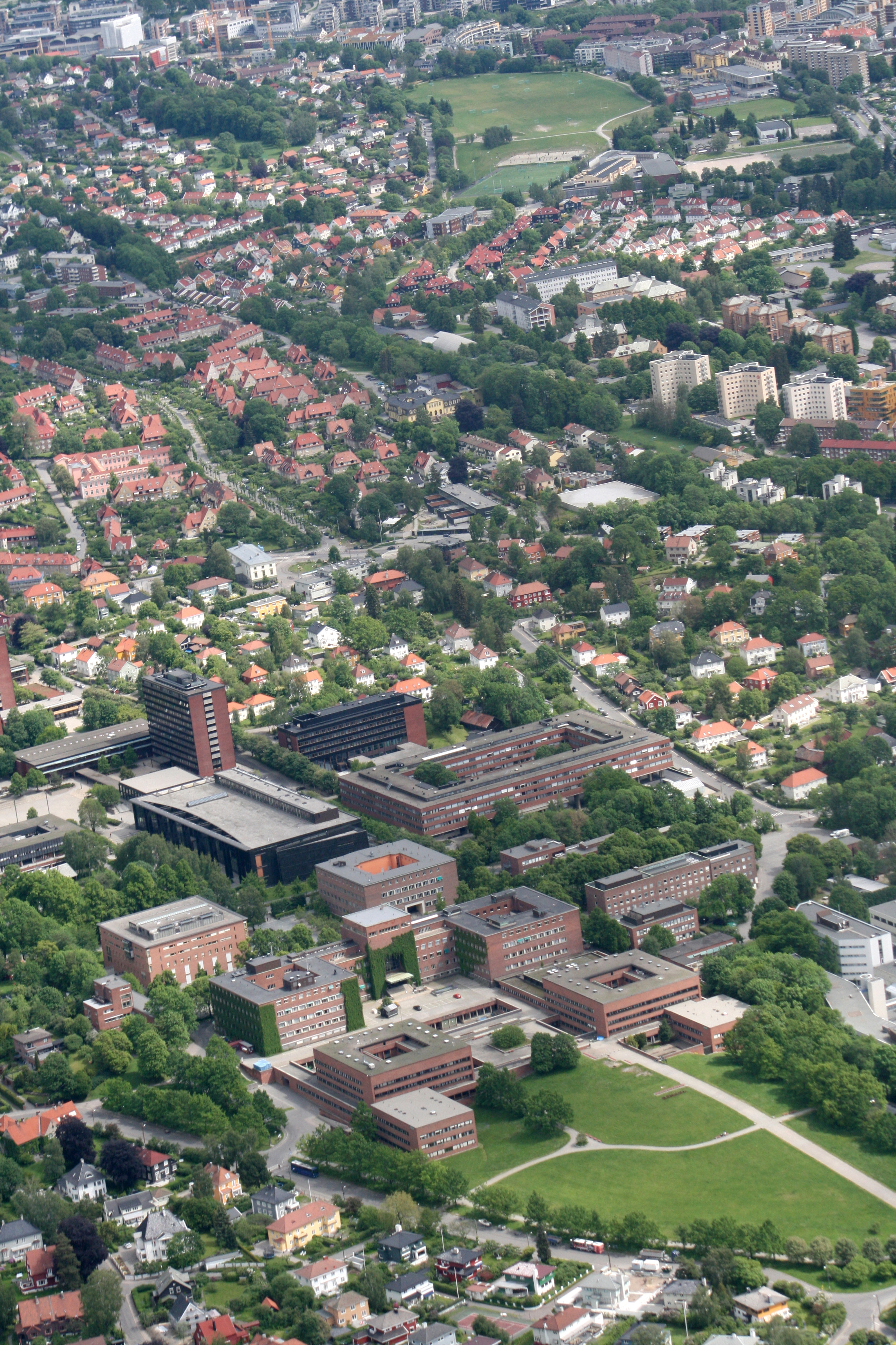 Aerial photograph from June 14th, 2015.